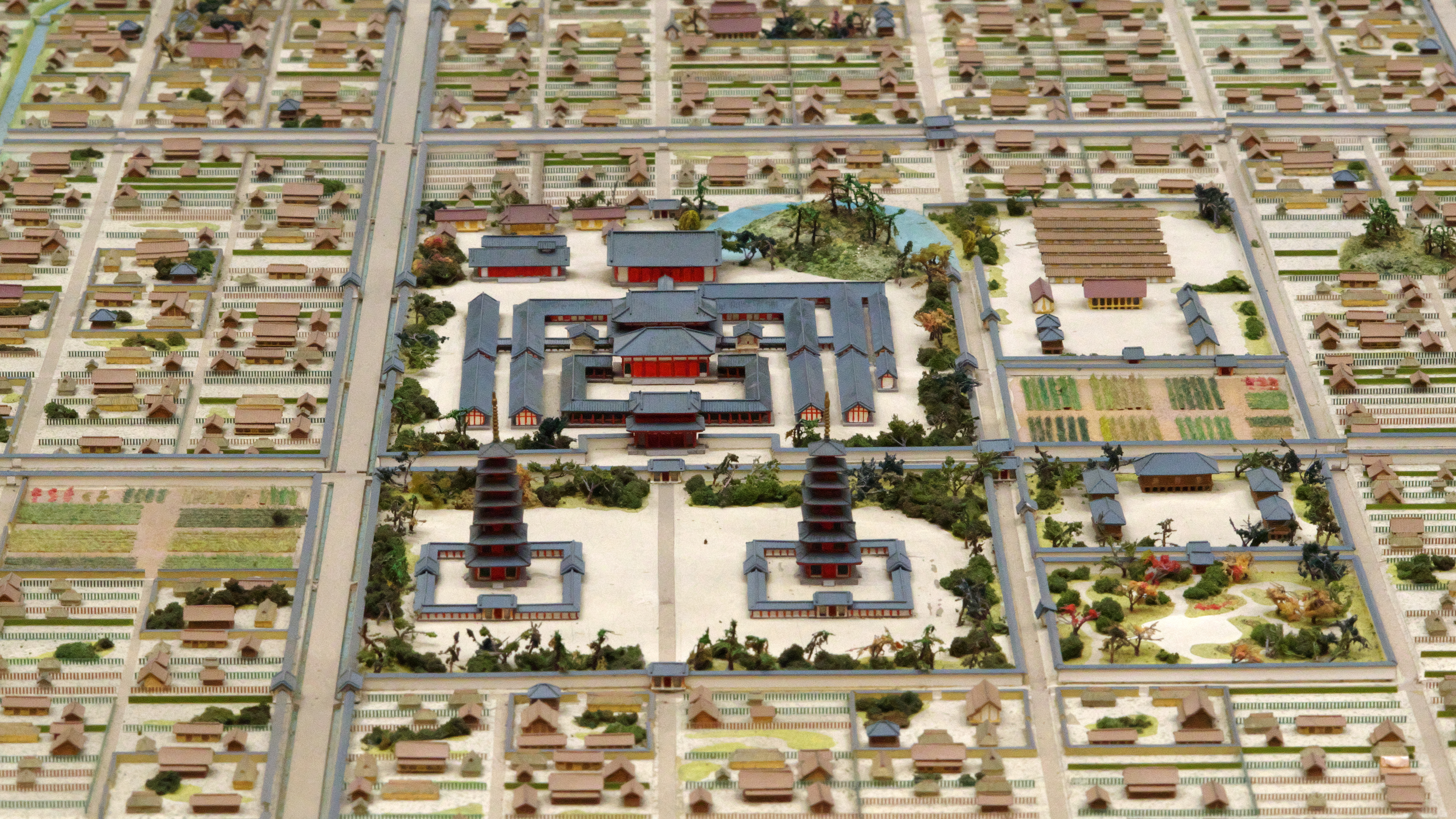 A model of Daian-ji at the time of foundation, a part of 1/1000 scale model of Heijokyo held by Nara City Hall.